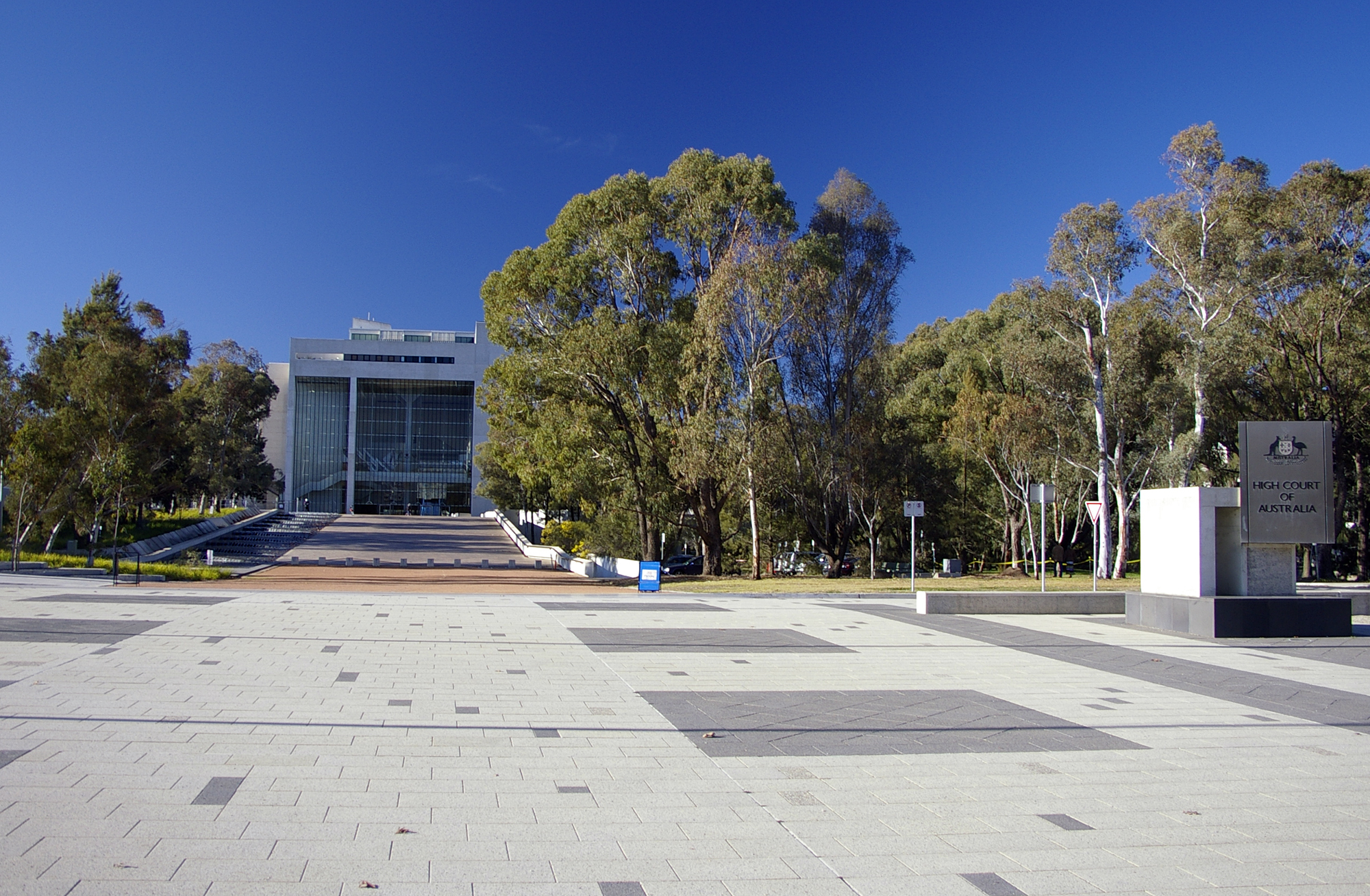 Entrance of the High Court of Australia located in Parkes, Australian Capital Territory